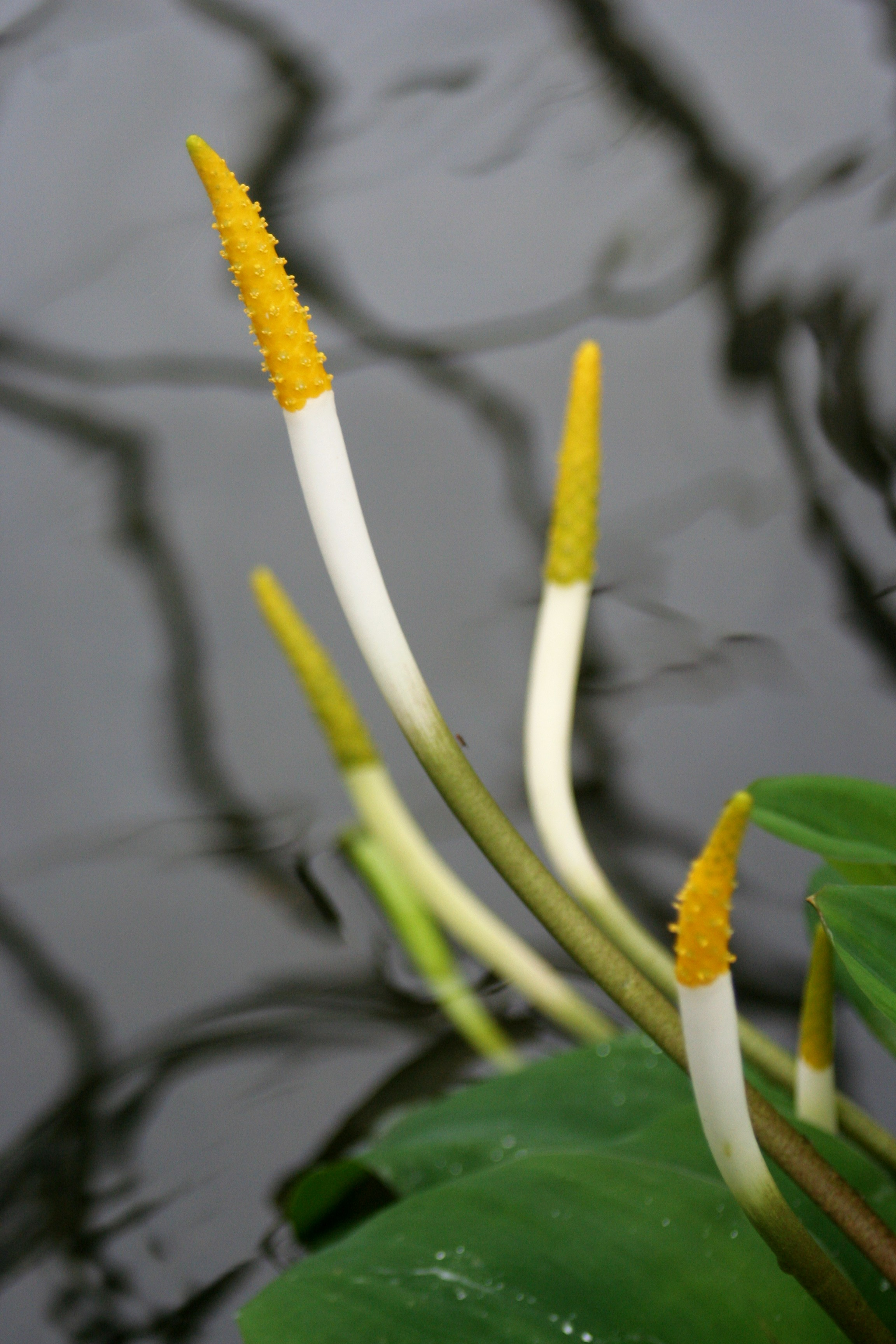 Golden Club (Orontium aquaticum) at the Buffalo and Erie County Botanical Gardens.